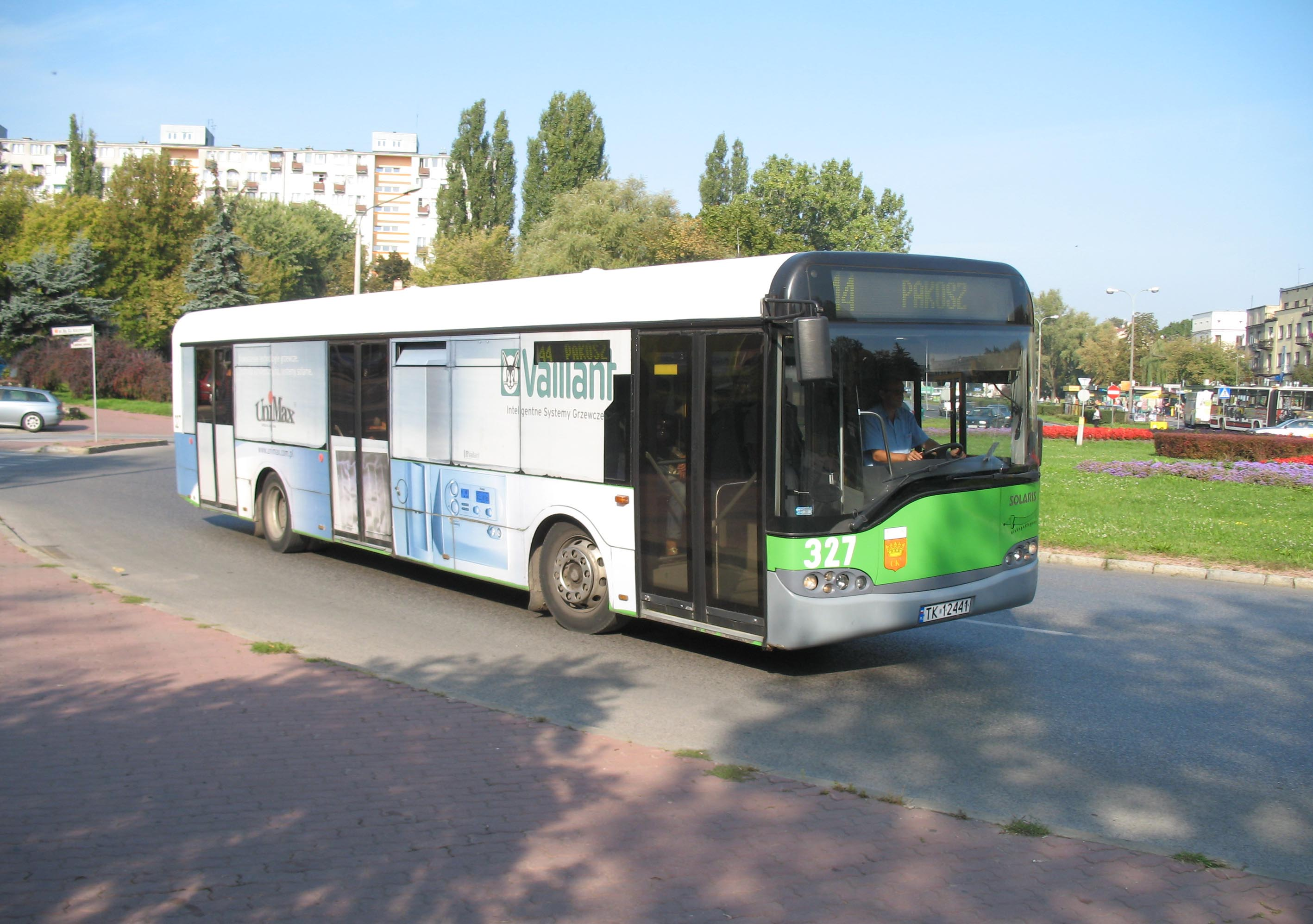 Solaris Urbino 12 Mk1 bus (#327) in Kielce, Poland. Year built 2000. MPK Kielce company.